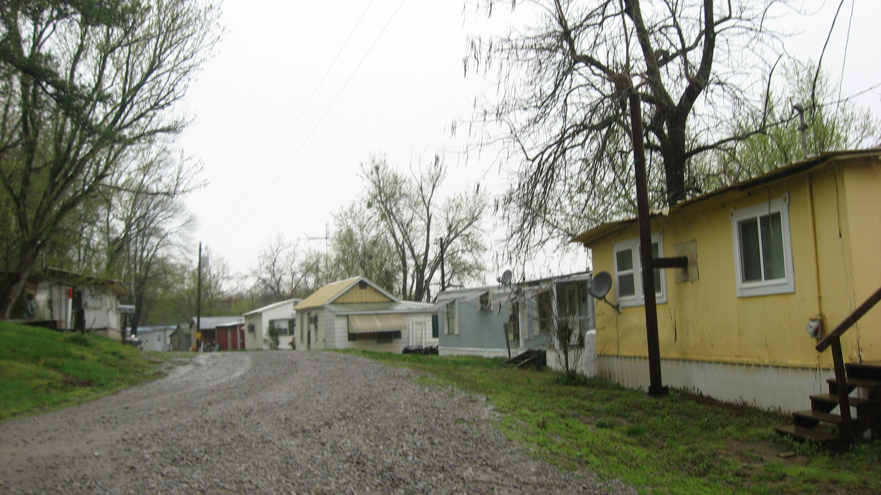 Residences on the main street of Saline Landing in Rock Precinct, Hardin County, Illinois, United States.